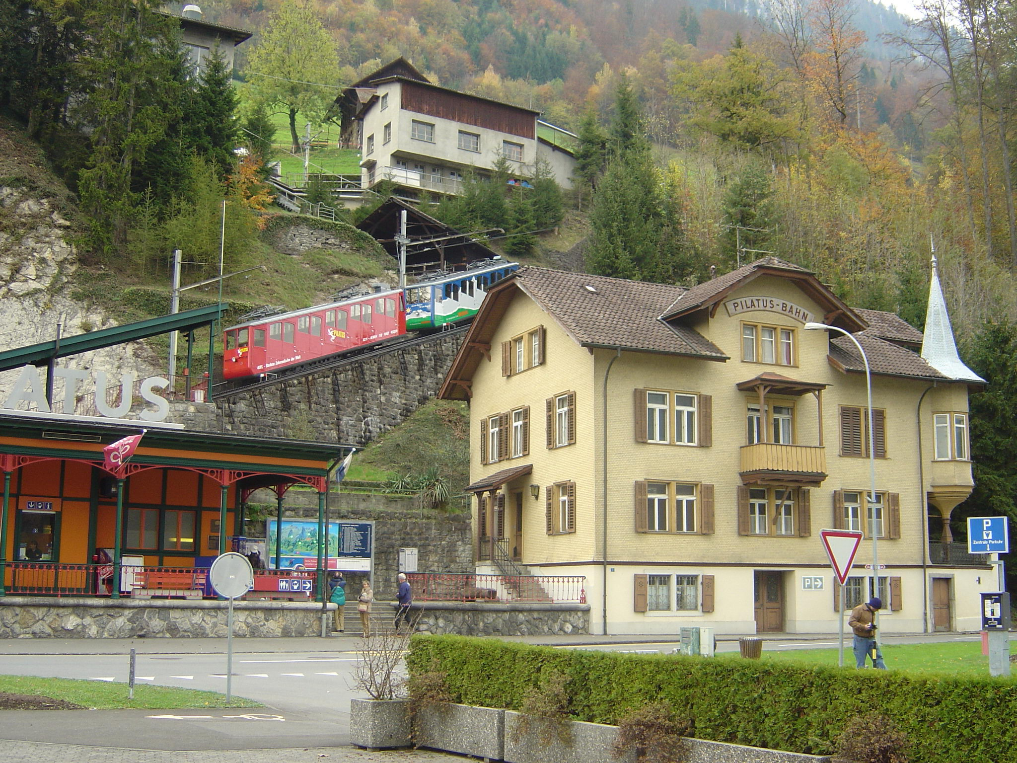 Pilatusbahn is the highest gradient (48%) rack-railway in the world. It goes up to Mount Pilatus (2,132m)DSC01932